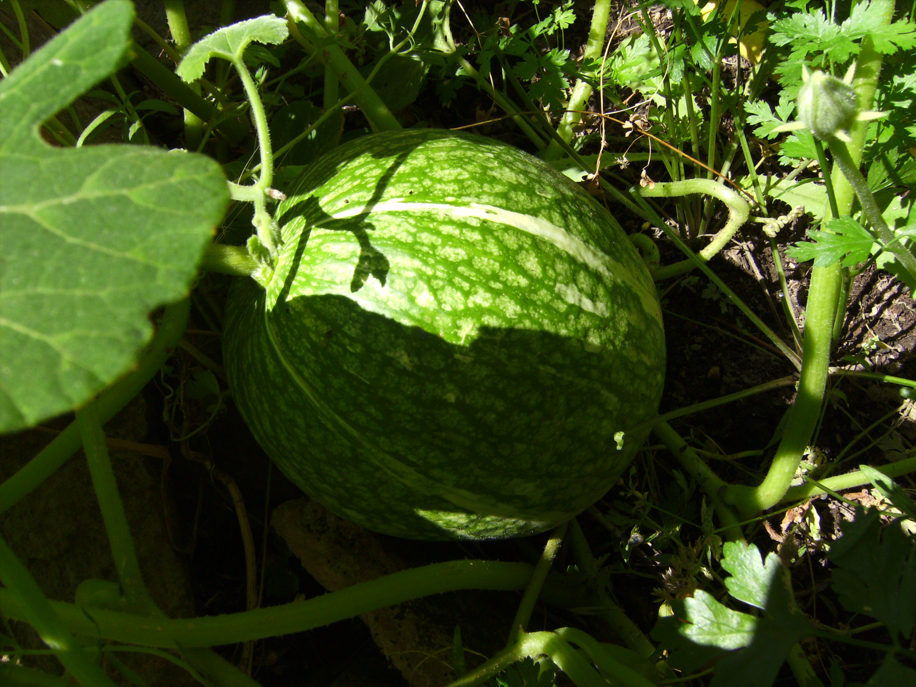 Cucurbita ficifolia cultivated plant, Castelltallat, Catalonia